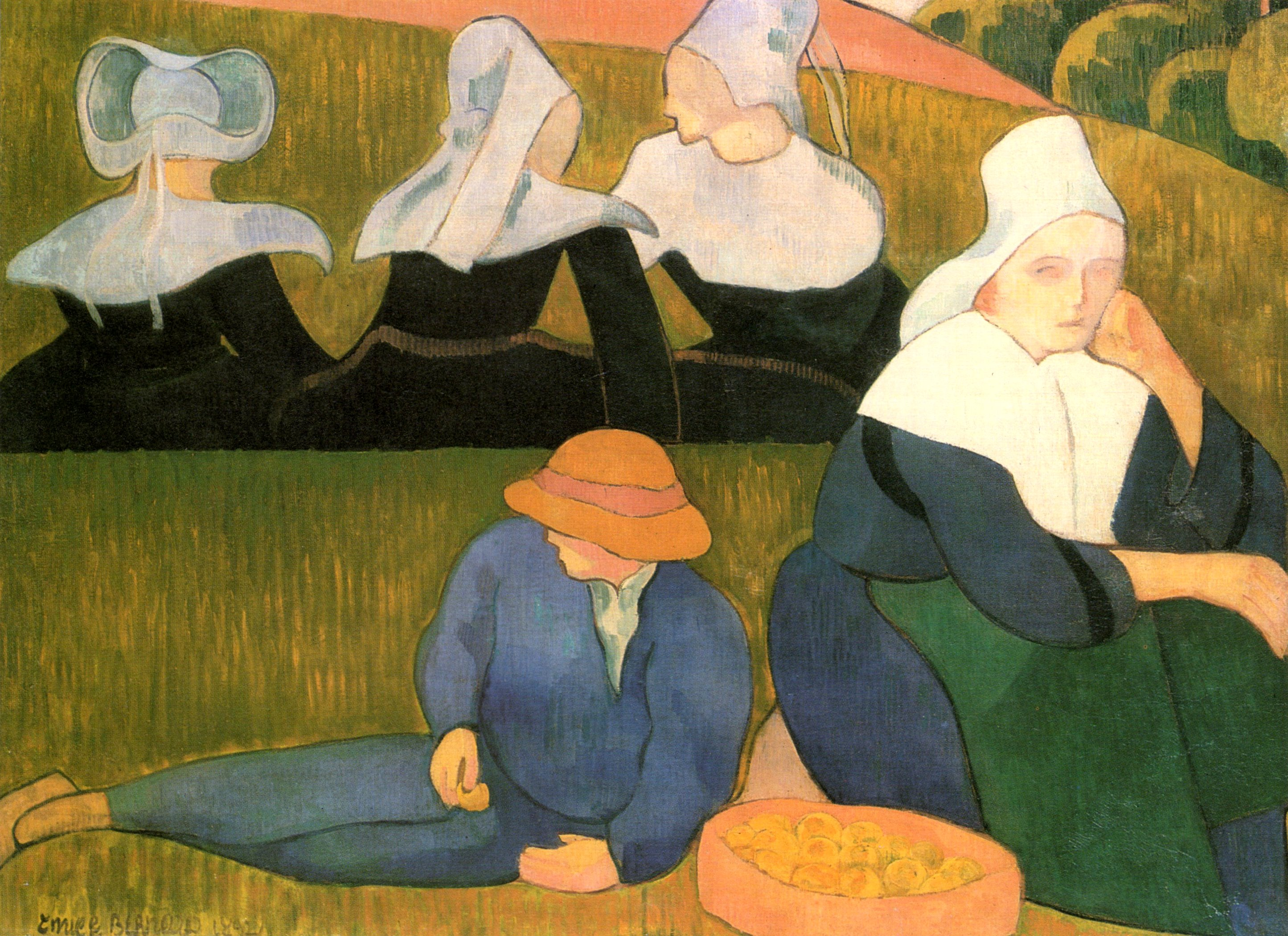 Emile Bernard, Breton Peasants in a Meadow, 1892. Josefowitz Collection. Oil on card. 84x114cm